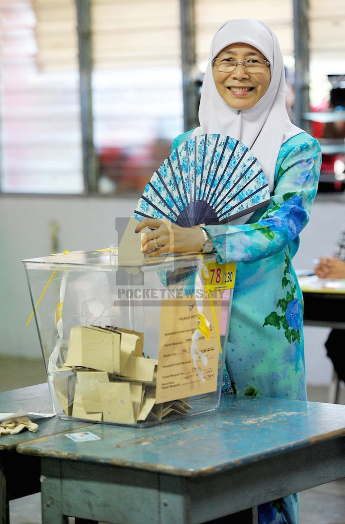 PRK P.044 Permatang Pauh By-Election Day With Dato Seri Dr Wan Azizah Putting Ballot Vote which happen on May 7, 2015. (Official Pocket News Editorial Images By JohnShen Lee)